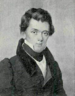 Image of American botanist Edwin James (1797-1861)